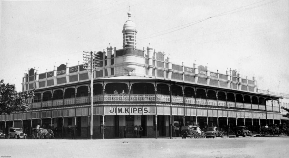 Central Hotel in Cairns, 1932. The ornate Central Hotel is situated on a very busy corner in Cairns. The hotel was operated at this time by Jim Kipps. The hotel was constructed in 1909.